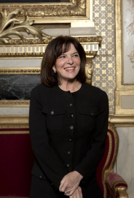 Nathalie Goulet, French Senator, in 2014